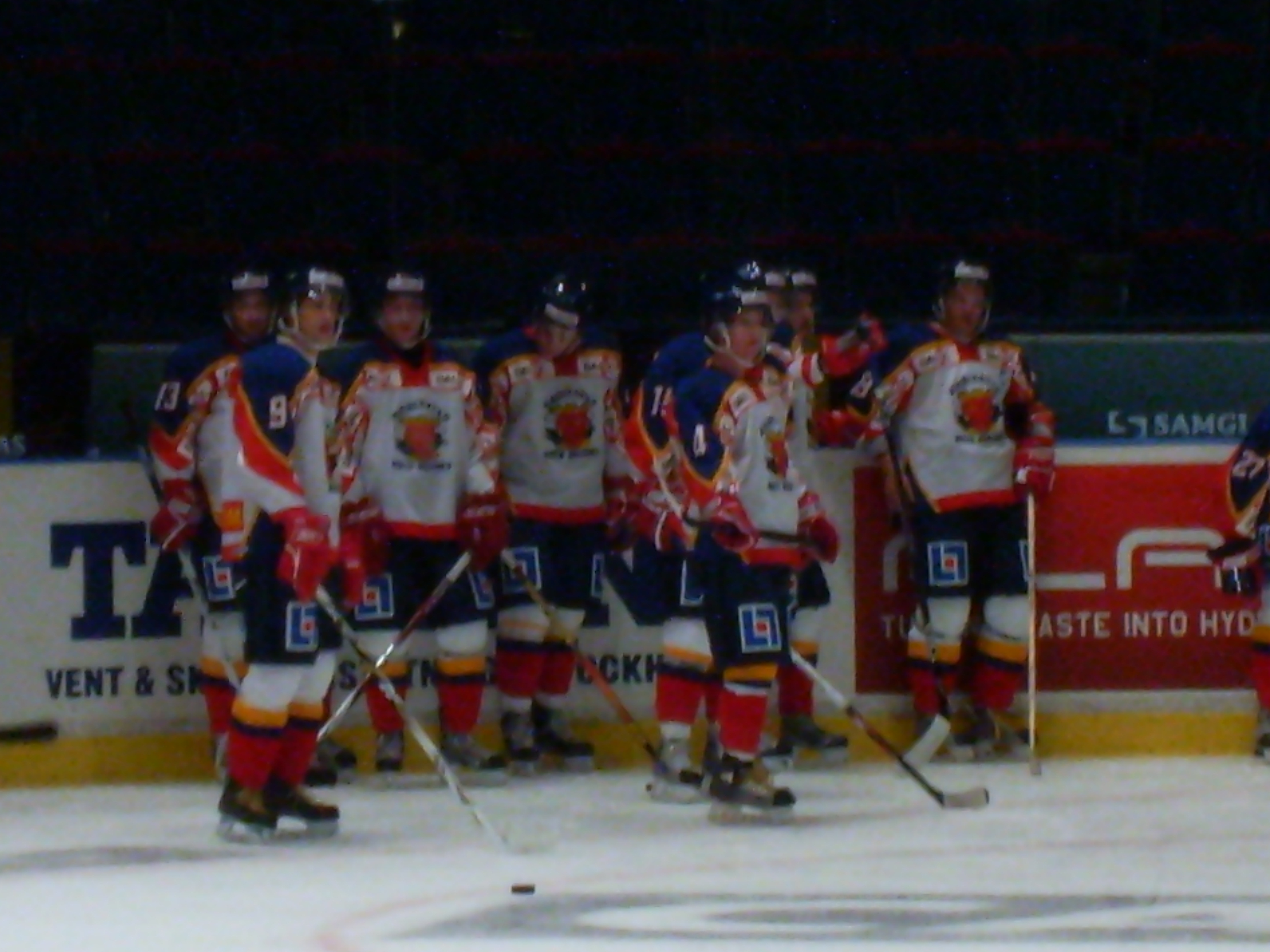 Ice Hockey players from Mariestad BOIS warming up before road game versus AIK